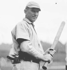 Photograph of Jack McCarthy, baseball player